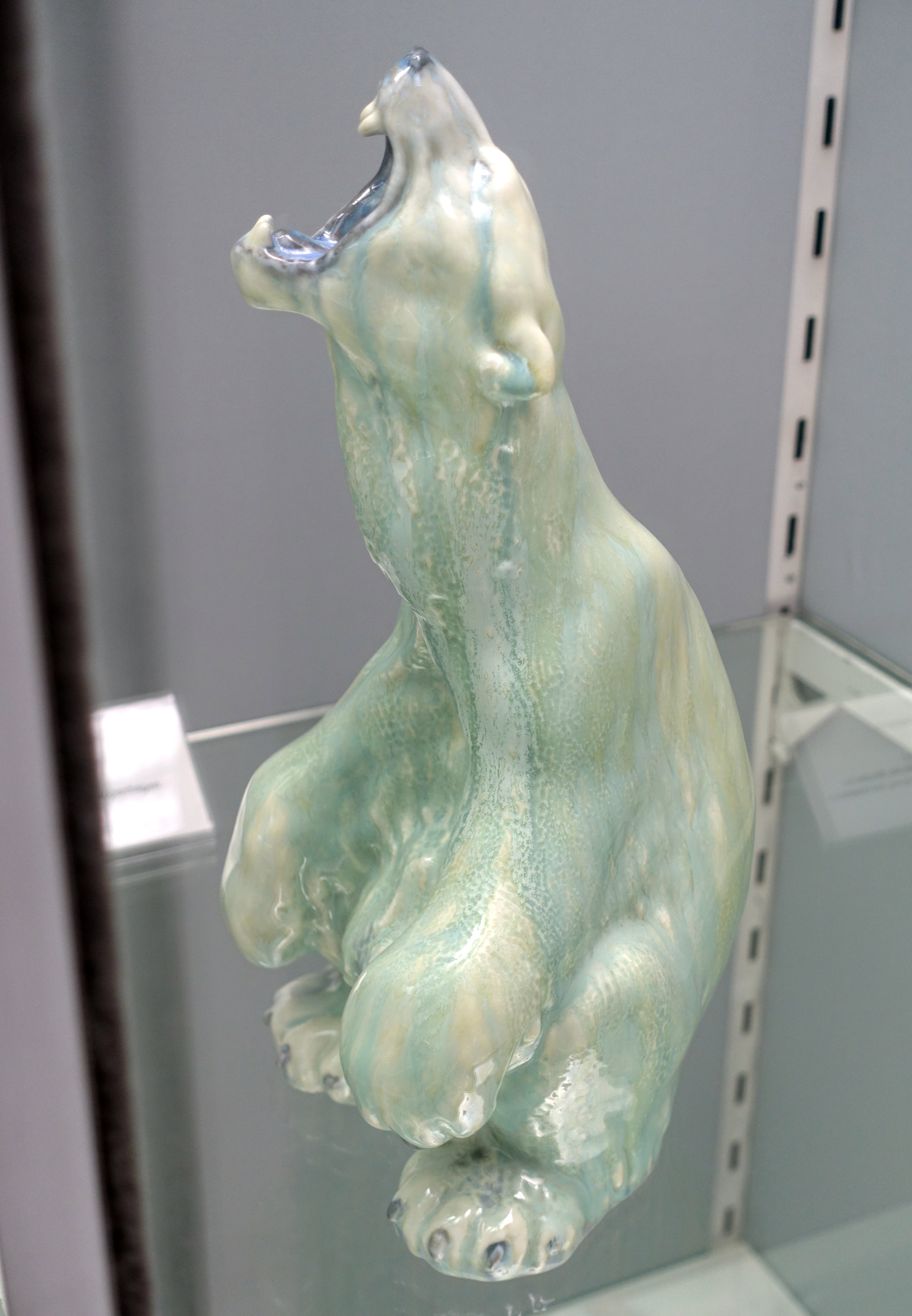 Exhibit in the Bröhan Museum, Berlin, Germany. This work is in the public domain because the artist died more than 70 years ago.